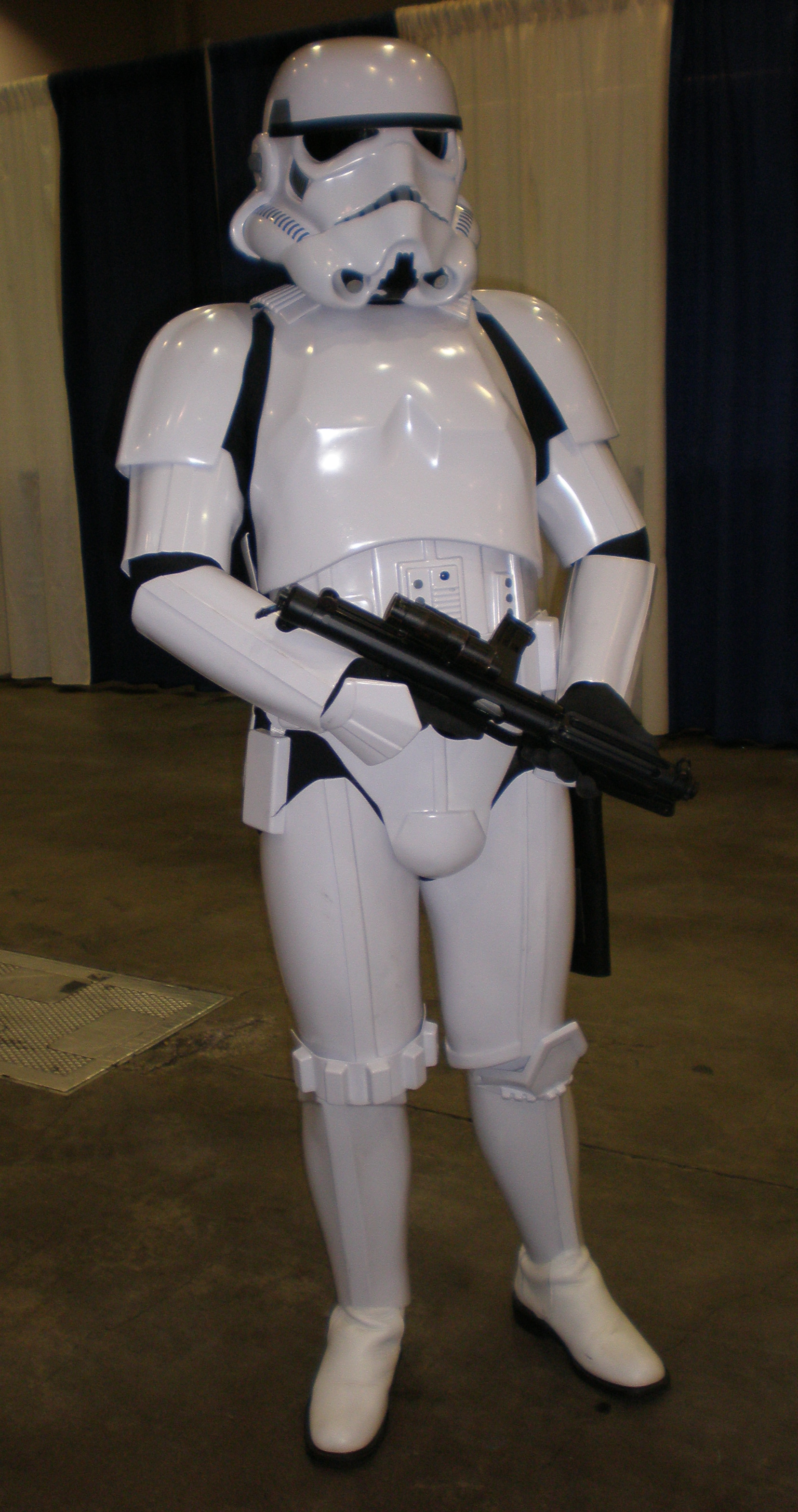 501st Legion Imperial Stormtrooper at WonderCon 2009.